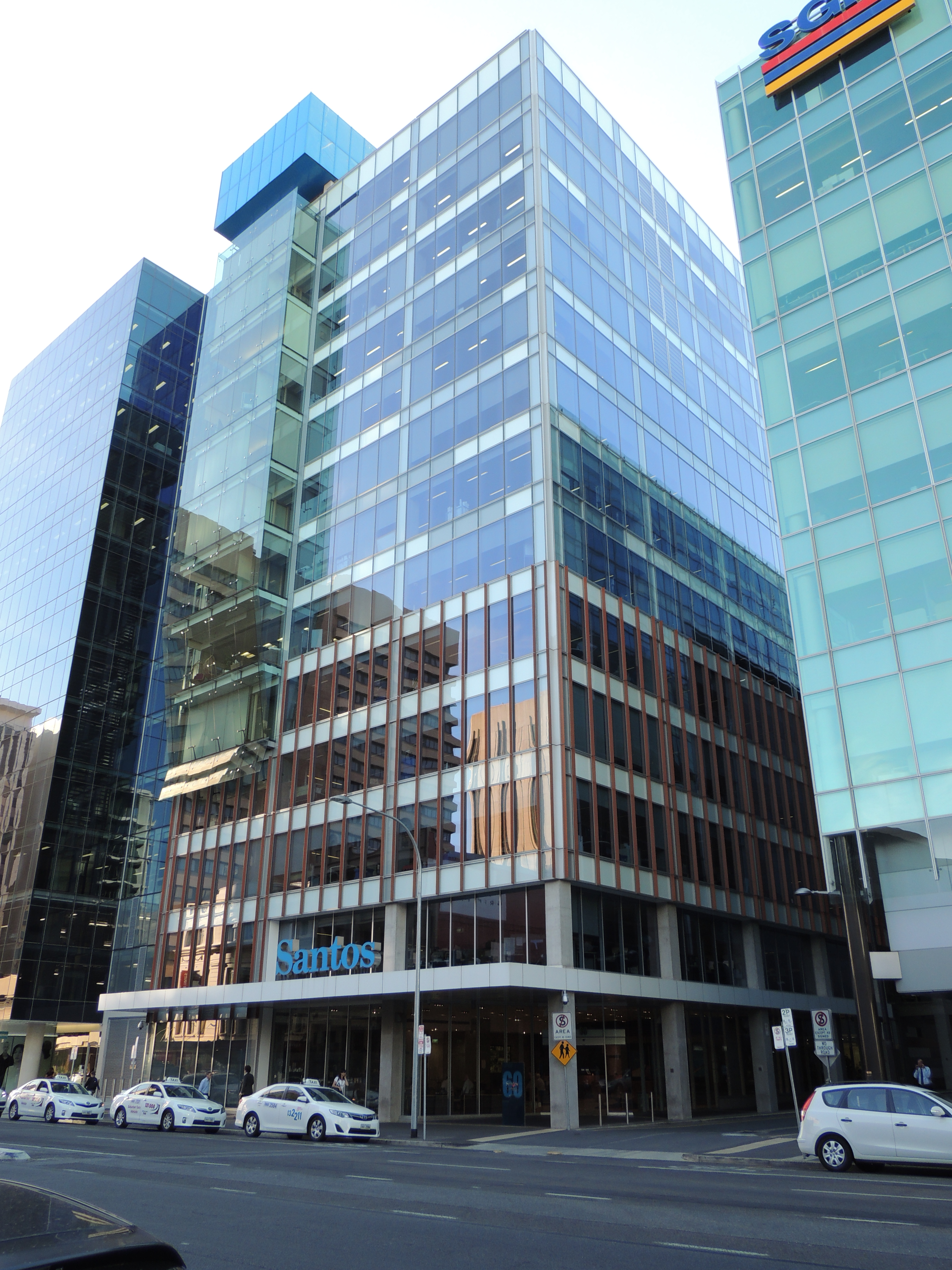 Santos Ltd's head office at 60 Flinders St in Adelaide, South Australia (2016)